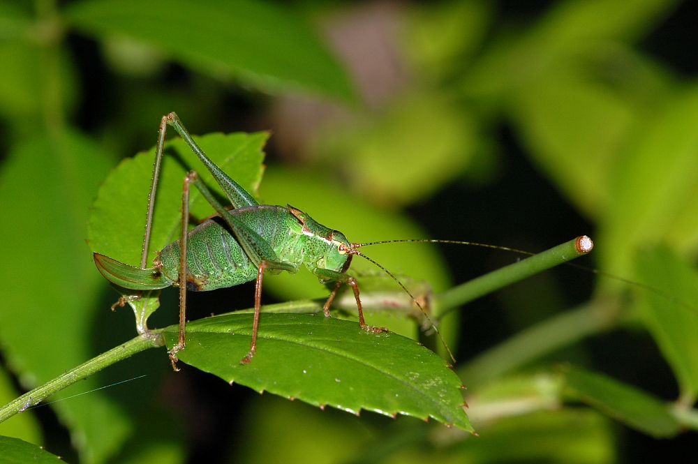 Leptophyes punctatissima, Nied, Frankfurt/Main, Germany